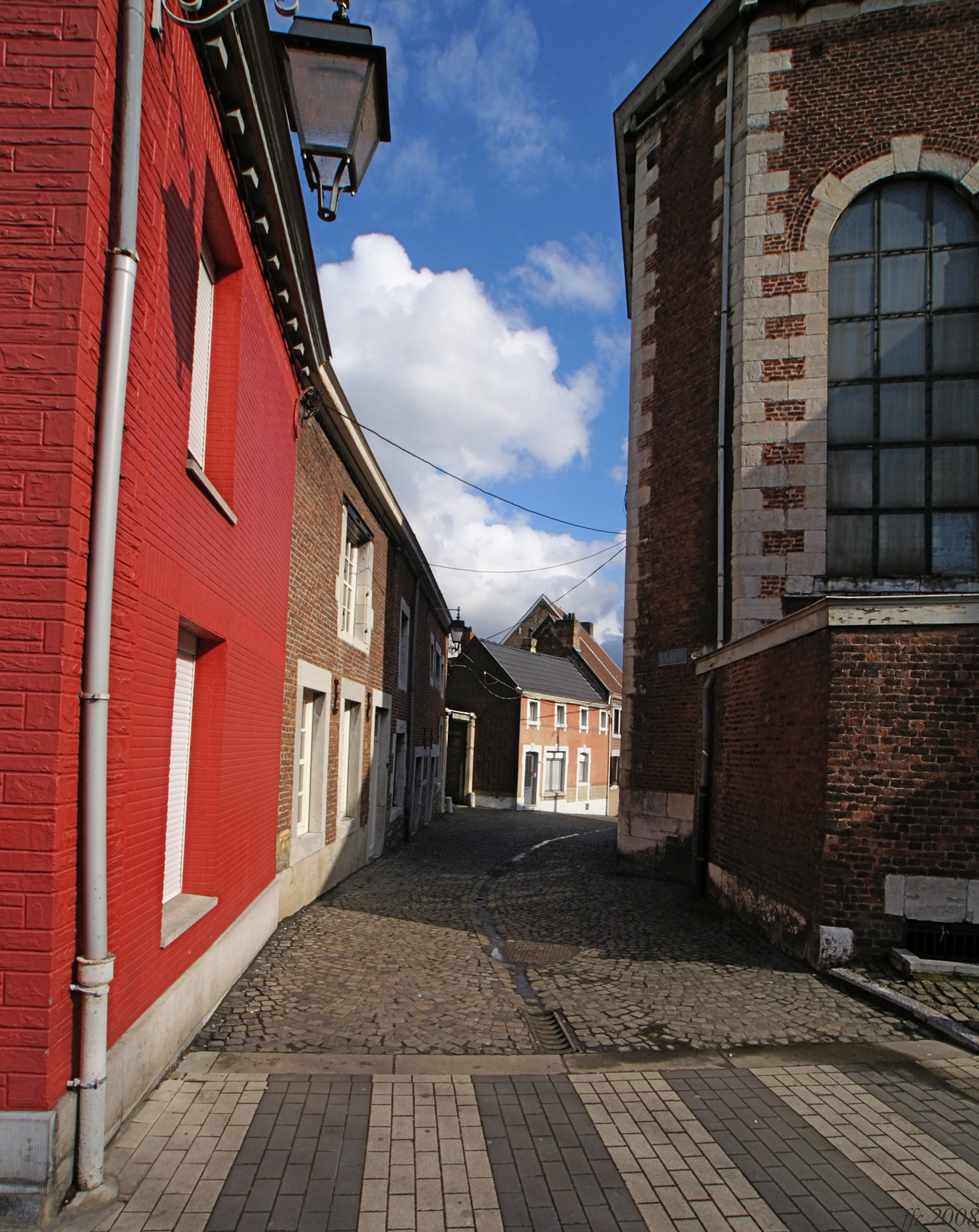 Chênée (Belgium): La rue Hippolyte Cornet